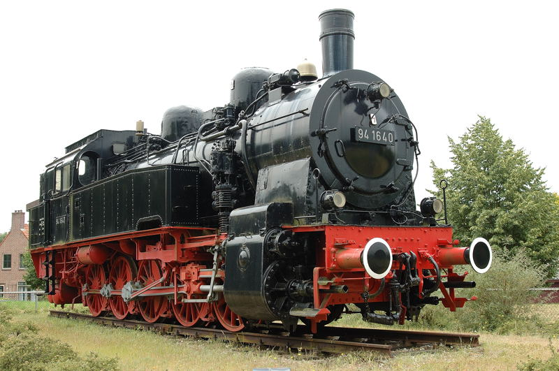 Former DB steamlocomotive 94 1640 as a monument in Gennep.